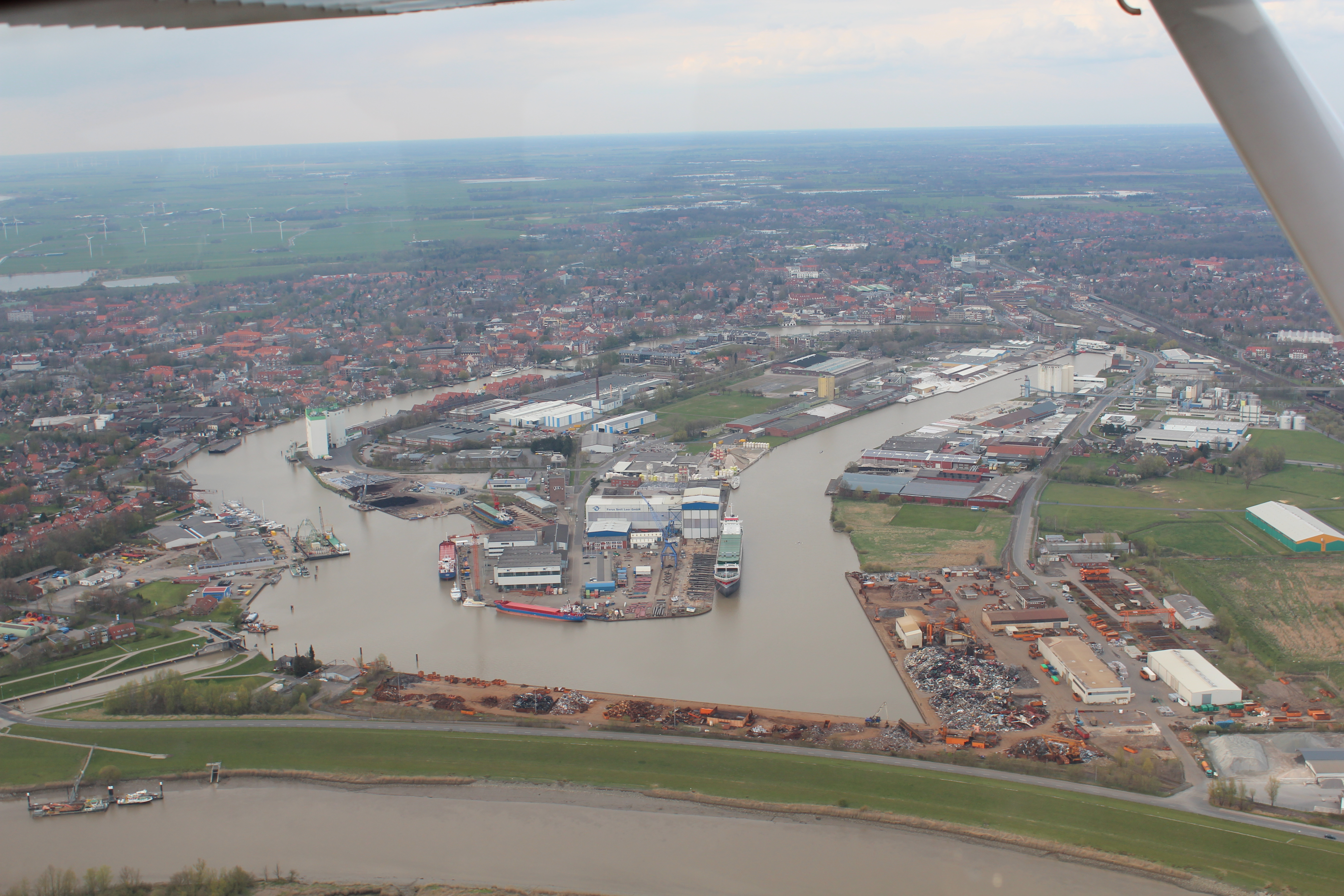 Port of Leer, seen roughly from south